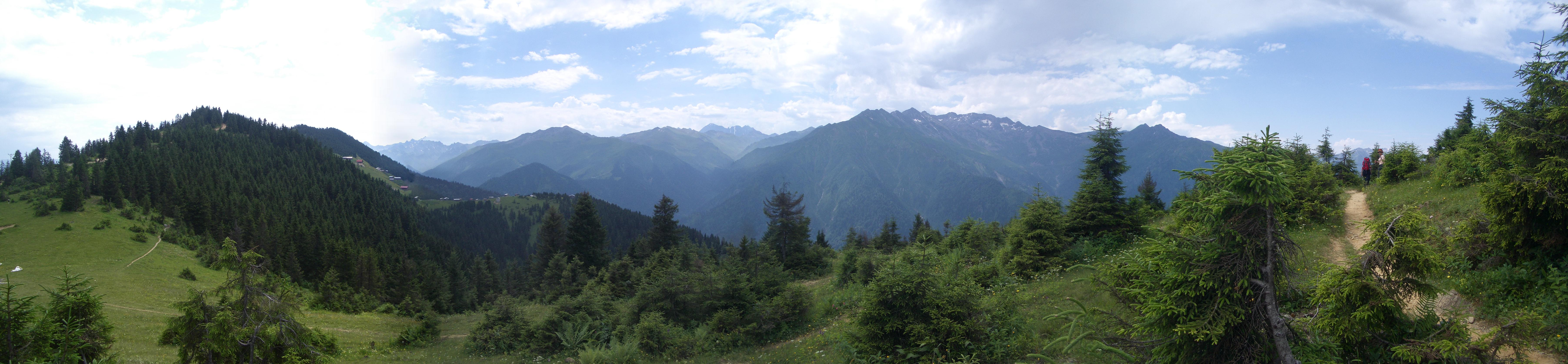 A panoramic view from the yayla Sal on the Pontic Mountains, Turkey.